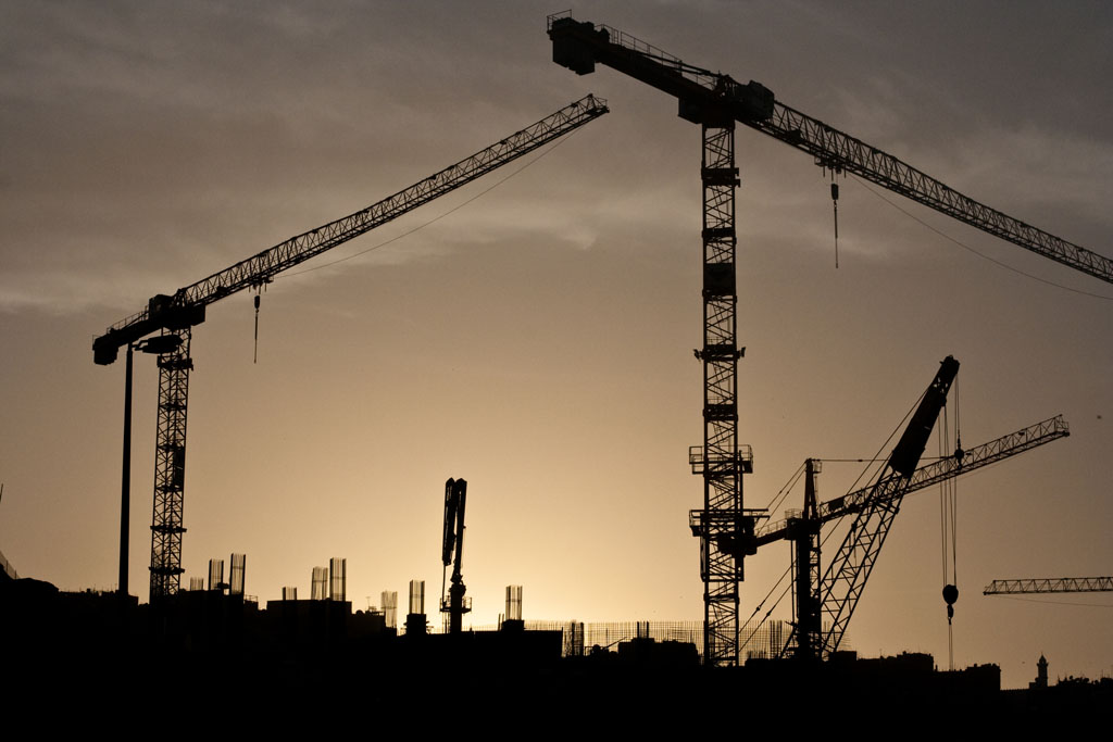 A construction site in Mecca